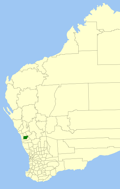 Description=Location of the Local Government Area in Western Australia